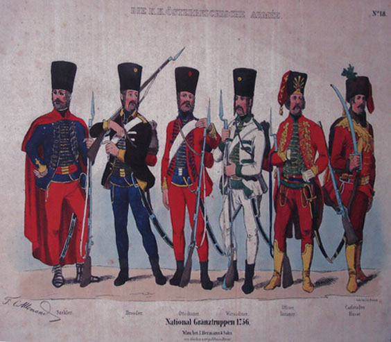 Soldiers from Military Frontier, Croatia, 1756